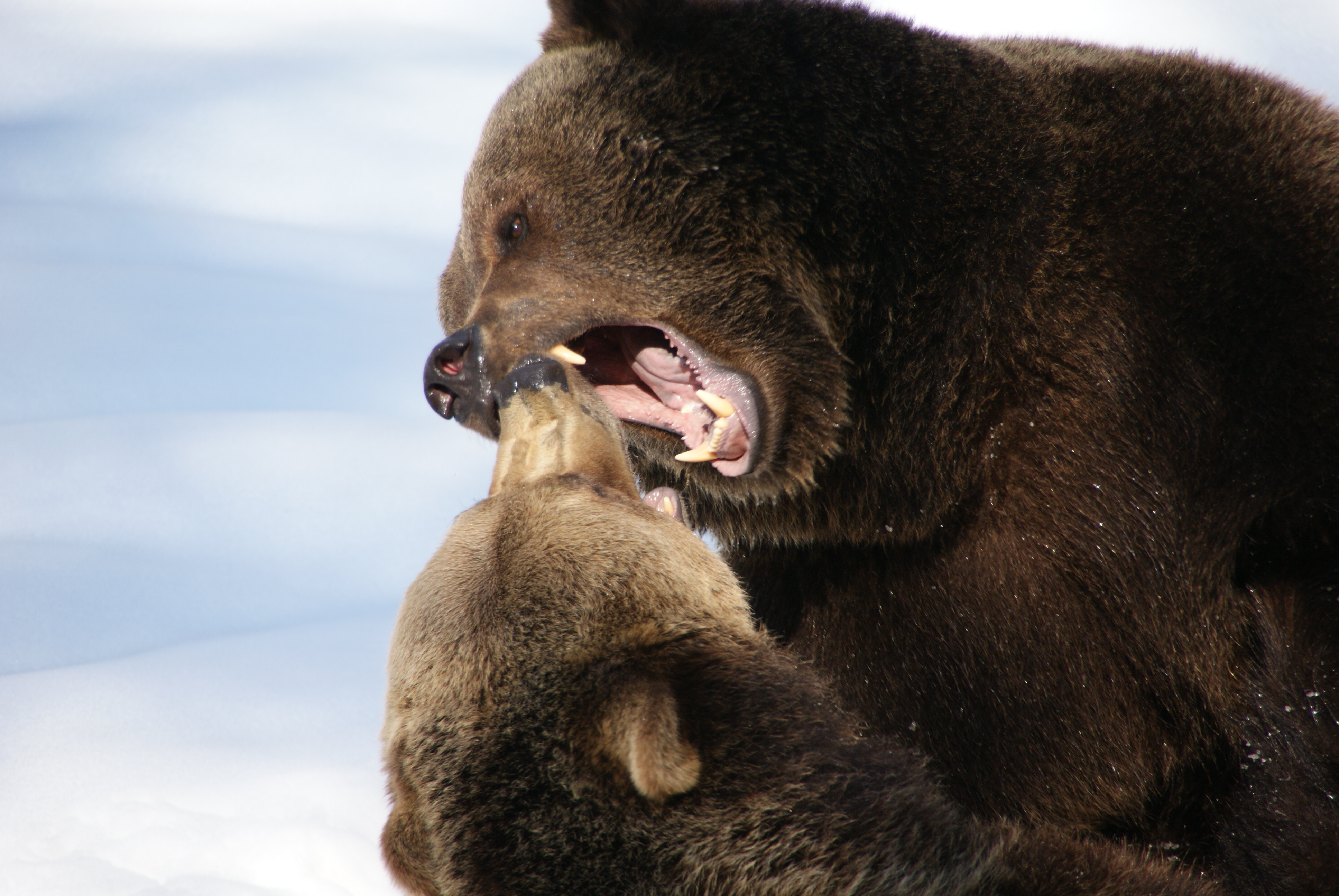 Brown Bears in an open-air enclosure at the National Park Bavarian Forest